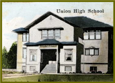 First building to house Fort Bragg Union High School in Fort Bragg, California,located on North Harrison Street near the intersection with East Bush Street. Was in use from its construction in 1907 until 1938 when the school moved to a larger campus at the corner of North Harold and East Fir Streets.